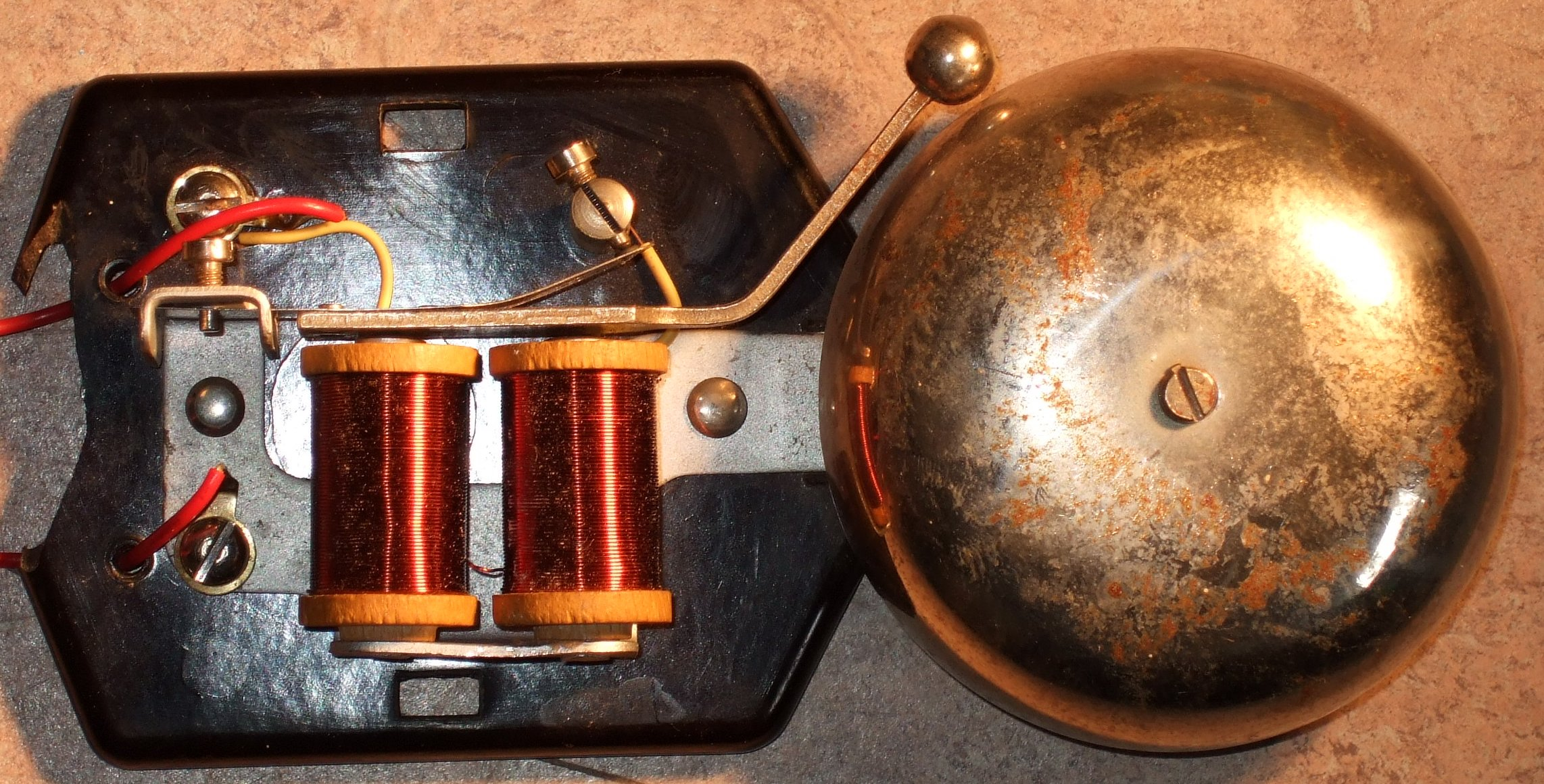 door bell